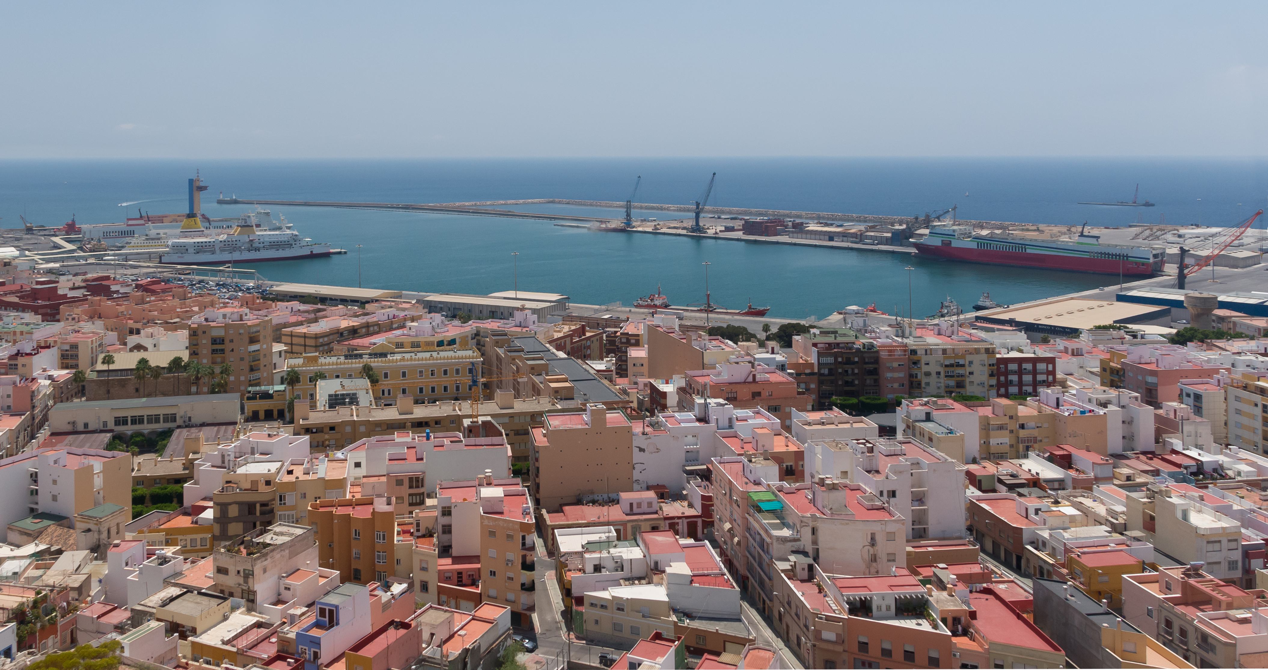 The harbor of Almeria, Spain